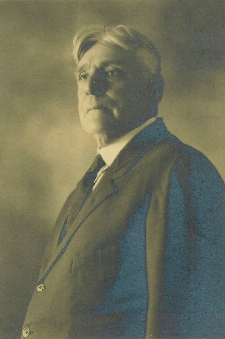 This is a family photo of Fred Goldsmith.